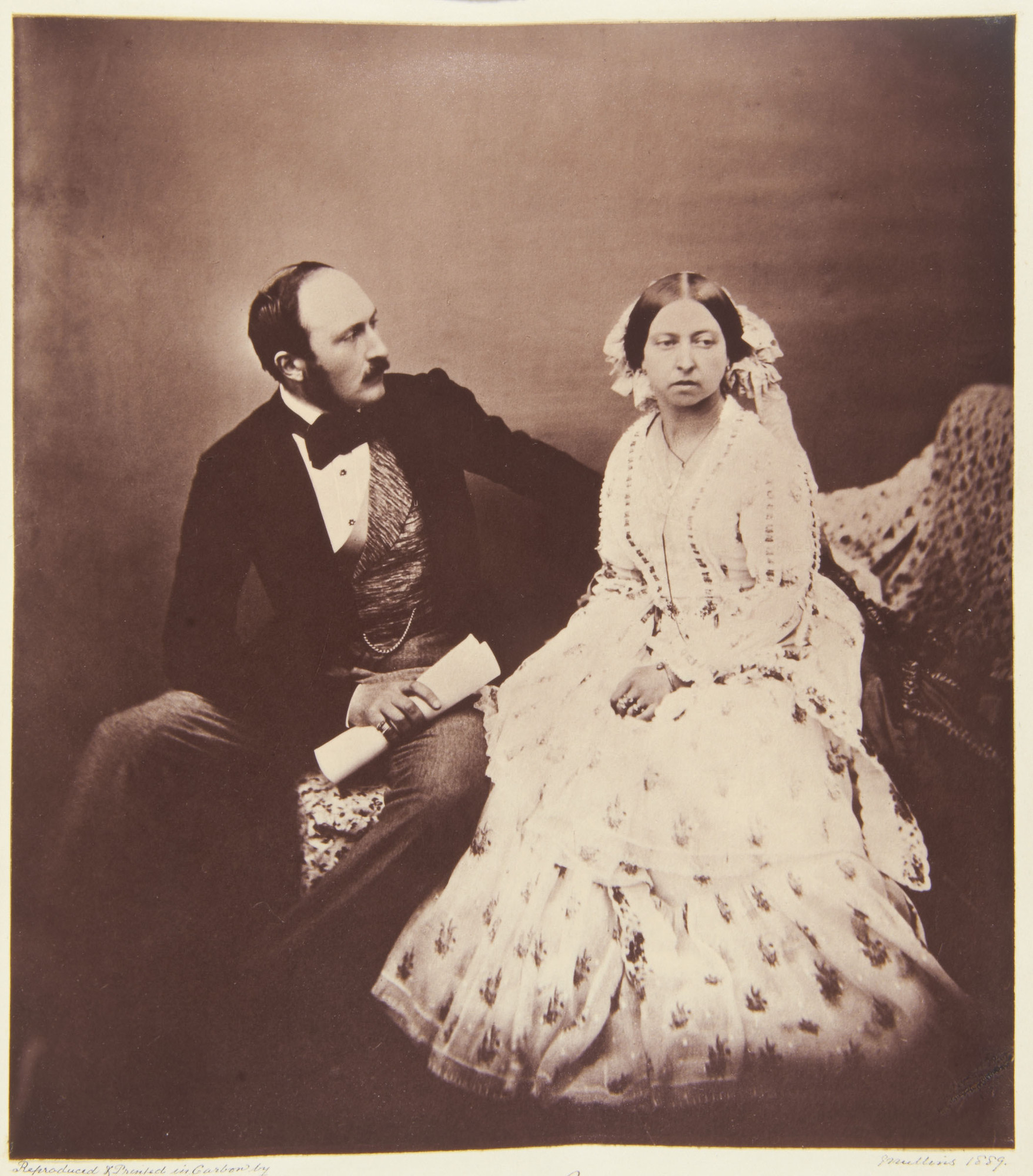 Queen Victoria and Prince Albert